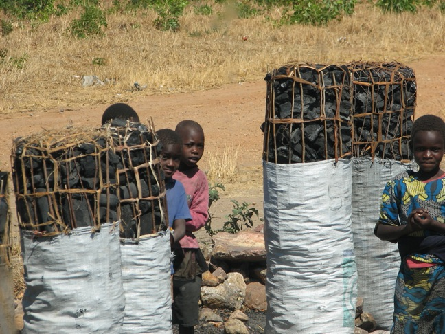 Malasha-sellers (Charcoal-Selling) at the Road Livingstone-Lusaka/Zambia